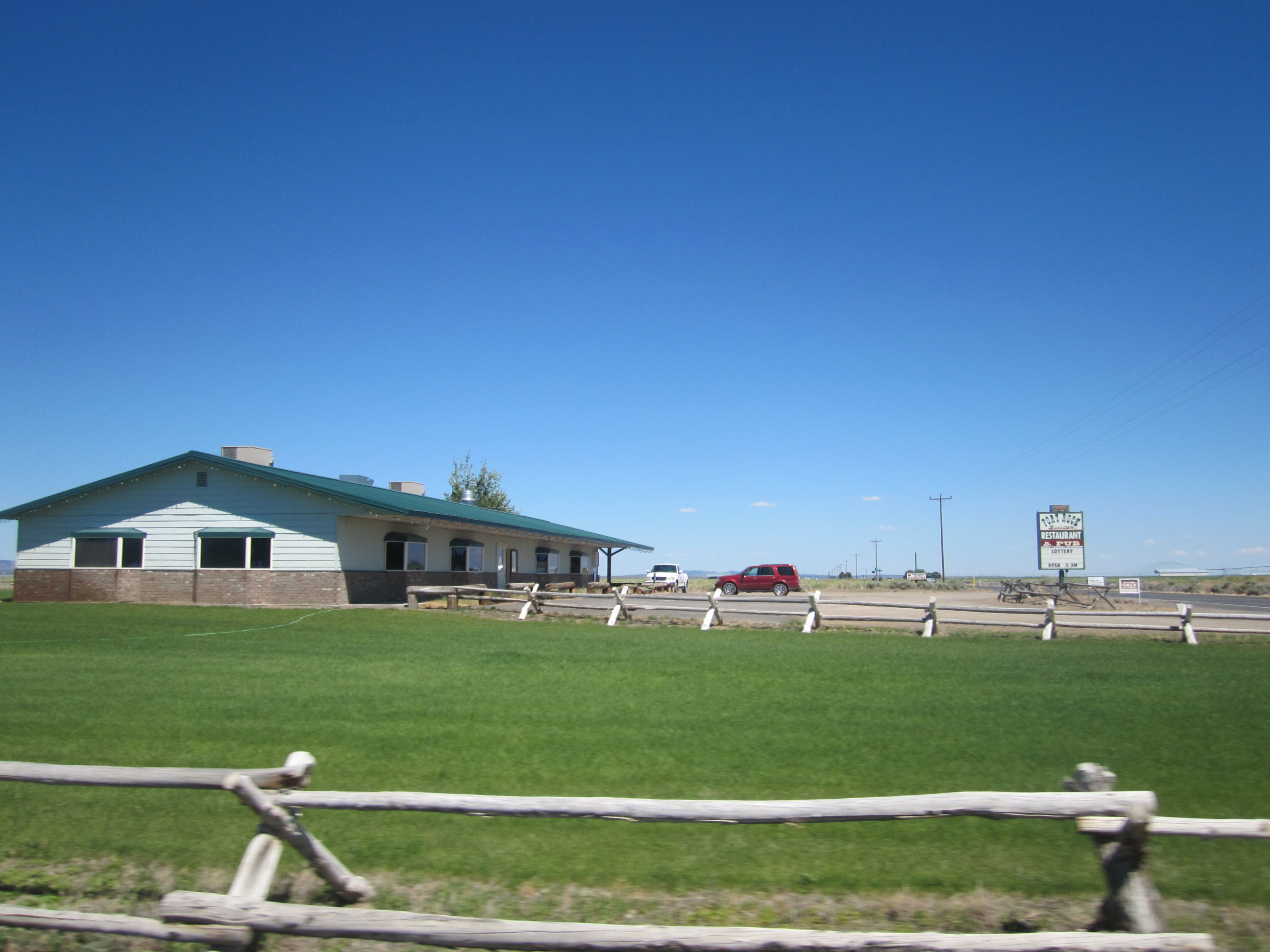 Fort Rock is an unincorporated community in Lake County, Oregon, United States, southeast of Fort Rock State Natural Area. The landmark of Fort Rock is a volcanic landmark called a tuff ring, located on an ice age lake bed in north Lake County, Oregon, United States.